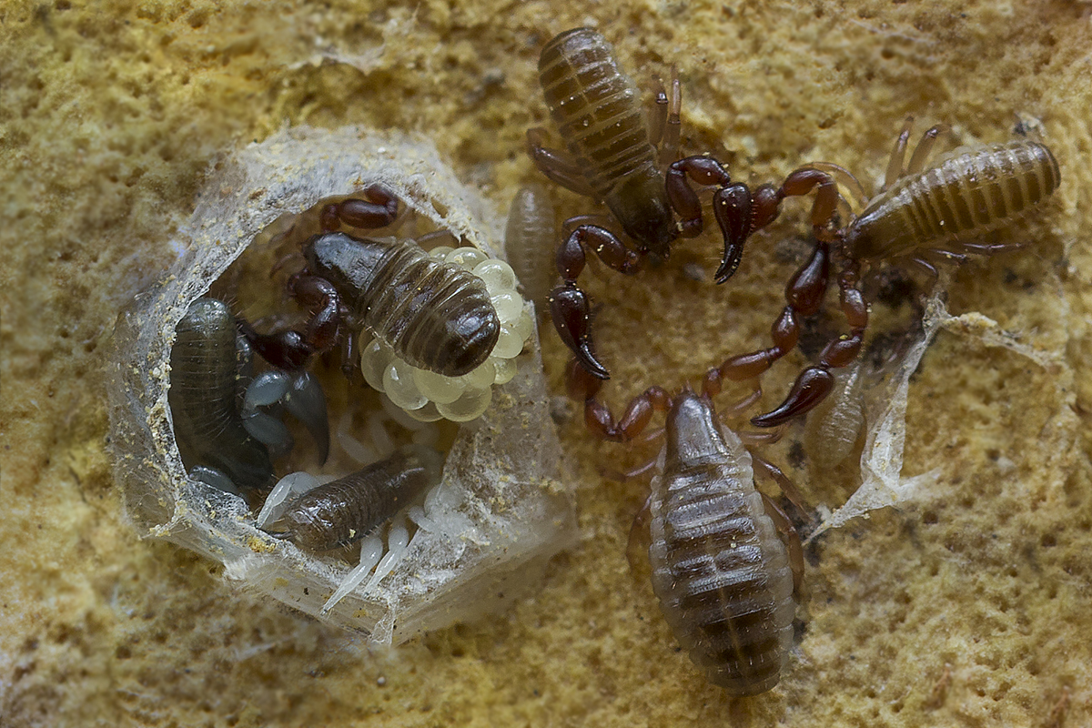 Image of a group of pseudoscorpions (Paratemnoides nidificator)